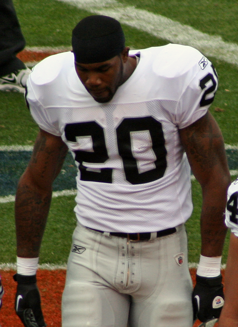 Darren McFadden, a player on the Oakland Raiders American football team.